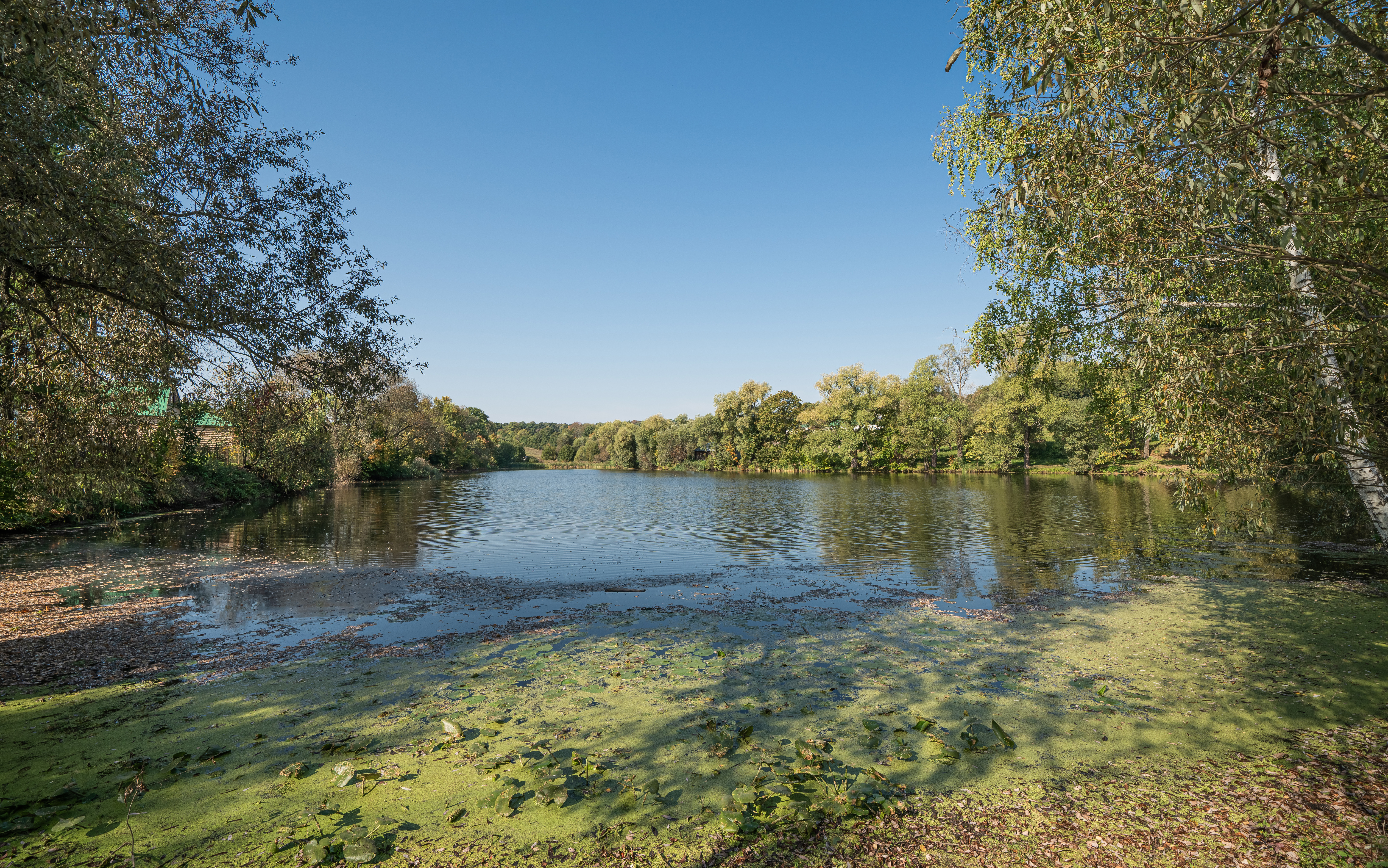 Big Pond in Yasnaya Polyana estate near Tula, Russia